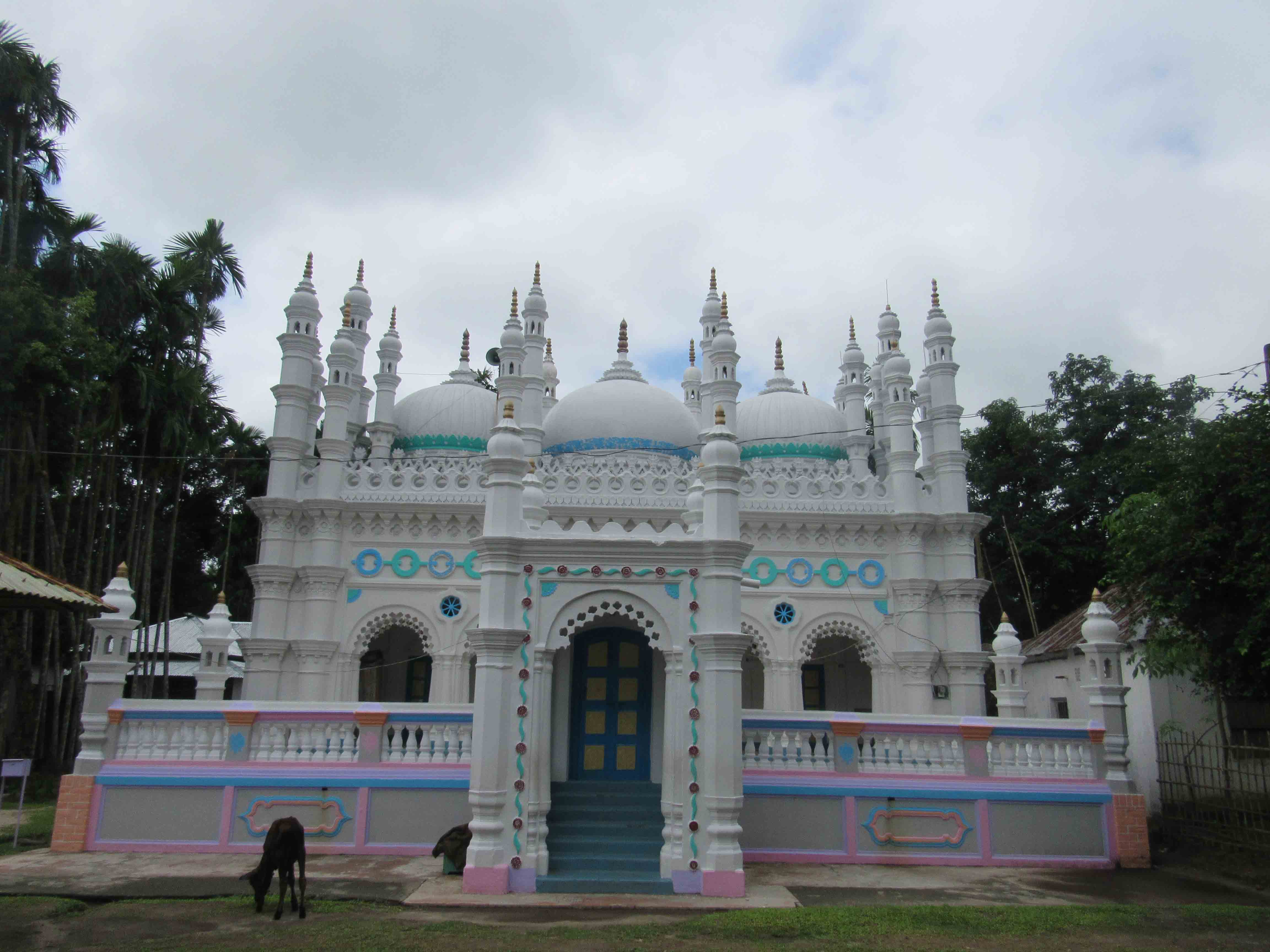 Jamalpur Jami Mosque, Sadar Upazila, Thakurgaon